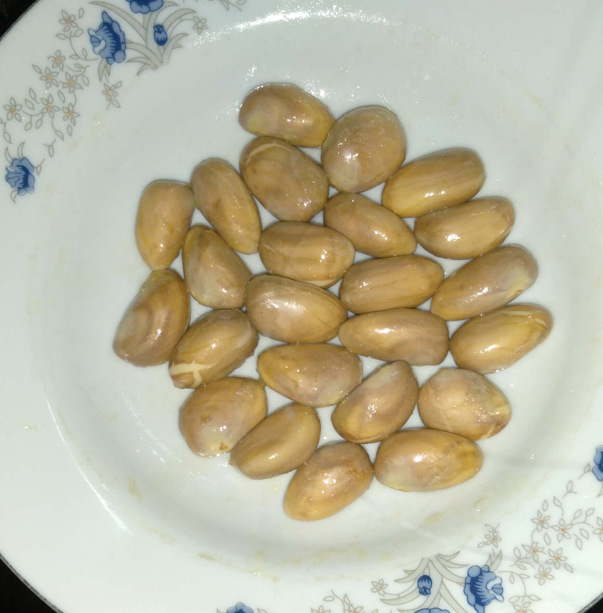 Jackfruit seeds on a plate from Bangladesh